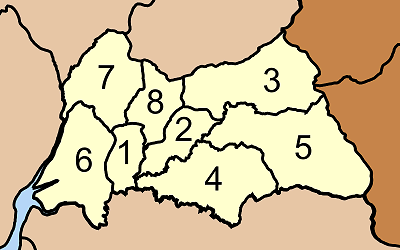 Map of Yan Ta Khao district, Trang province, Thailand, with the communes (tambon) numbered. Yan Ta Khao (ย่านตาขาว) Nong Bo (หนองบ่อ) Na Chumhet (นาชุมเห็ด) Nai Khuan (ในควน) Phrong Chorakhe (โพรงจระเข้) Thung Krabue (ทุ่งกระบือ) Thung Khai (ทุ่งค่าย) Ko Pia (เกาะเปียะ)